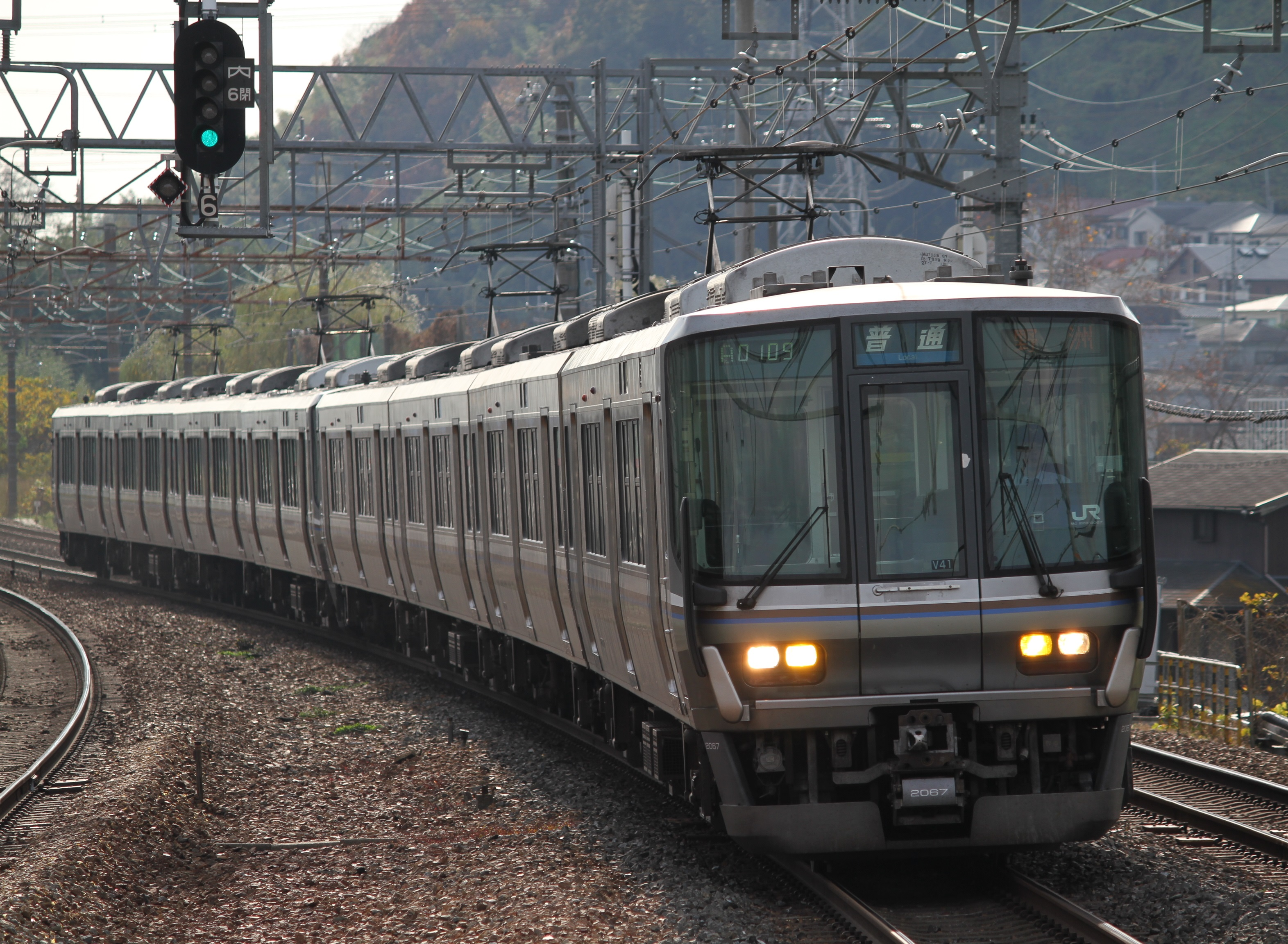 A JR West 223-2000 series EMU